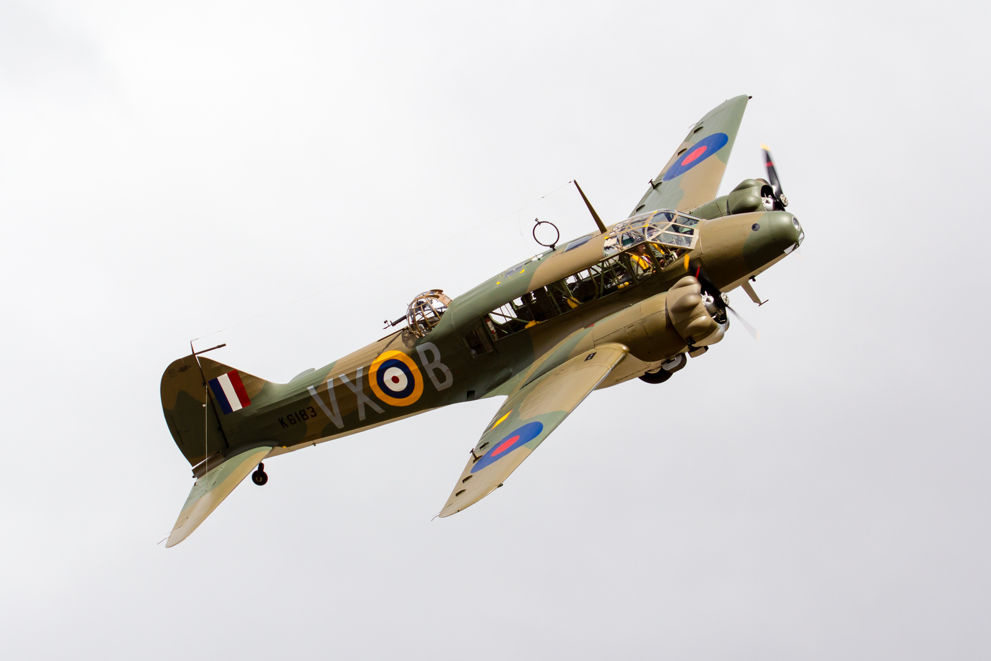 Classic Fighters 2015 - Avro Anson ZK-RRA